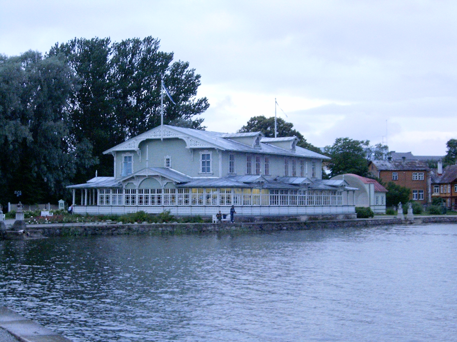 Haapsalu resort hall